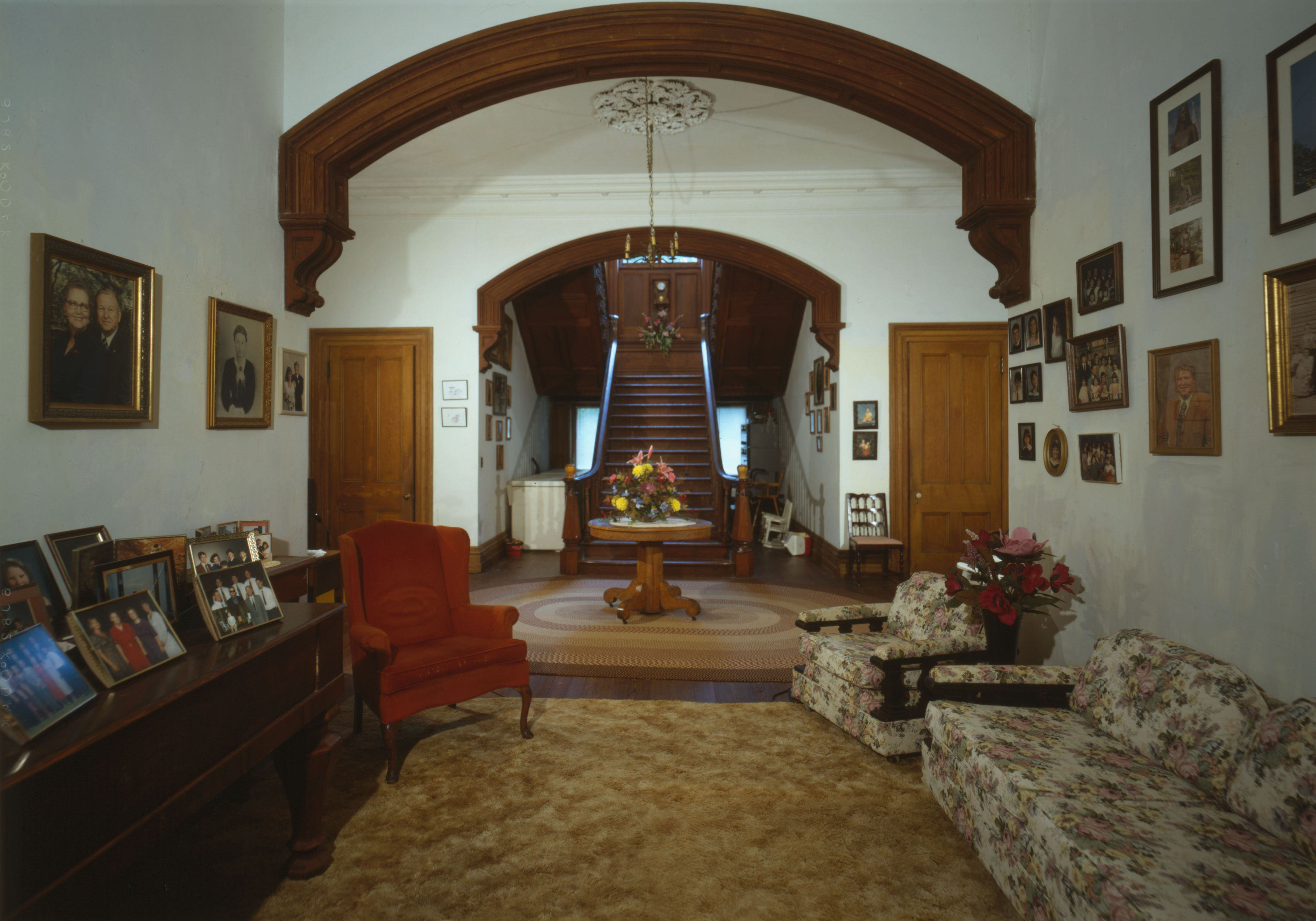 Kenworthy Hall, State Highway 14 (Greensboro Road), Marion, Perry County, AL. FIRST FLOOR CENTRAL HALLWAY, LOOKING TO CROSS HALL AND STAIR. (COLOR DUPLICATE OF HABS No. AL-765-59) al93.